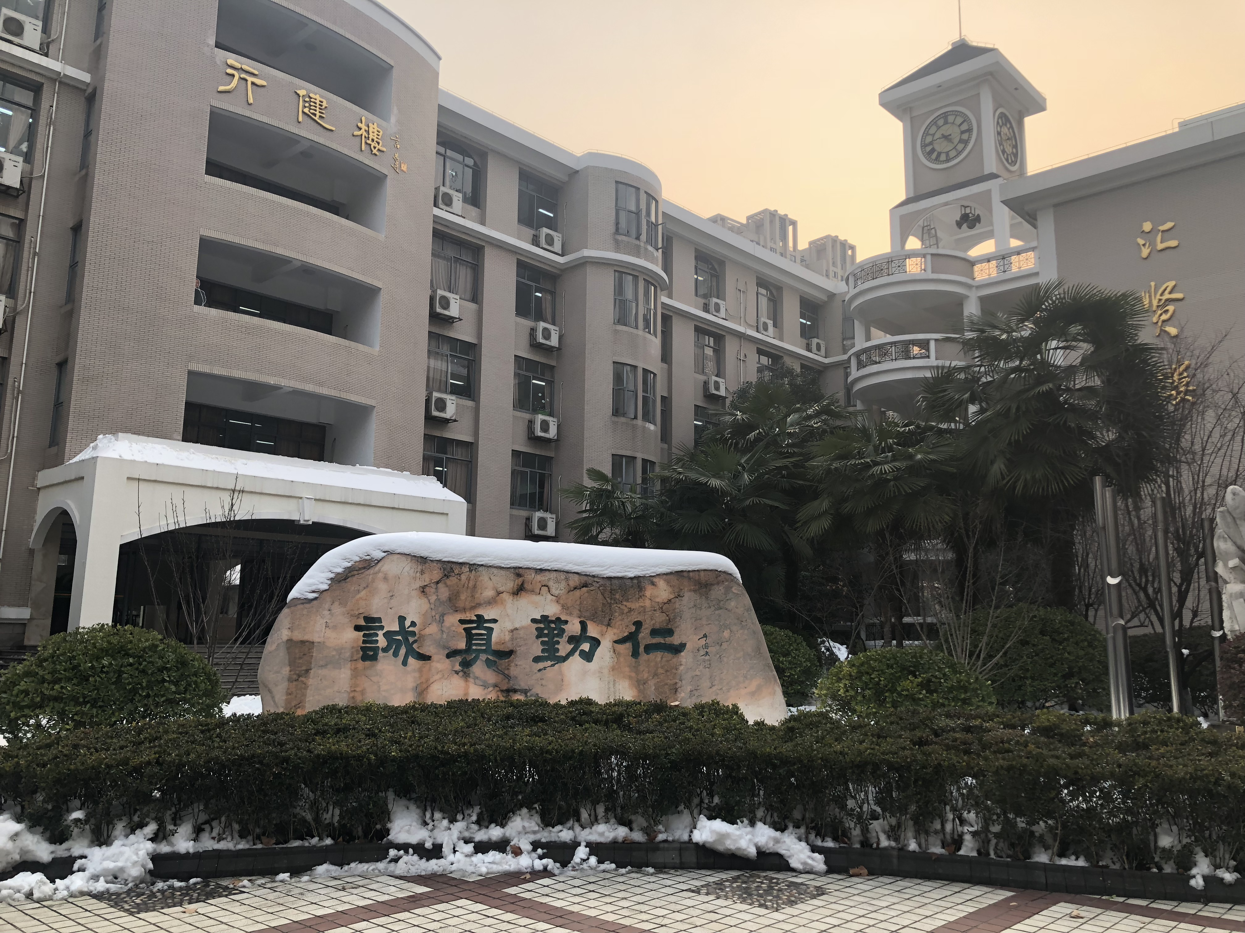 Motto stone in Nanjing Jinling High School